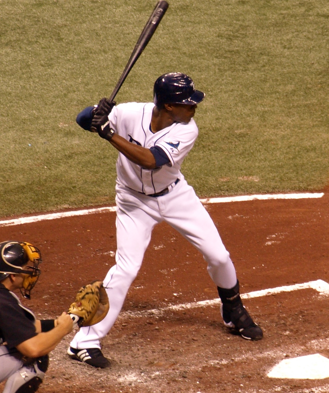 Tampa Bay Rays center fielder B. J. Upton stands at bat during a game against the visiting Florida Marlins at Tropicana Field on June 14, 2008.